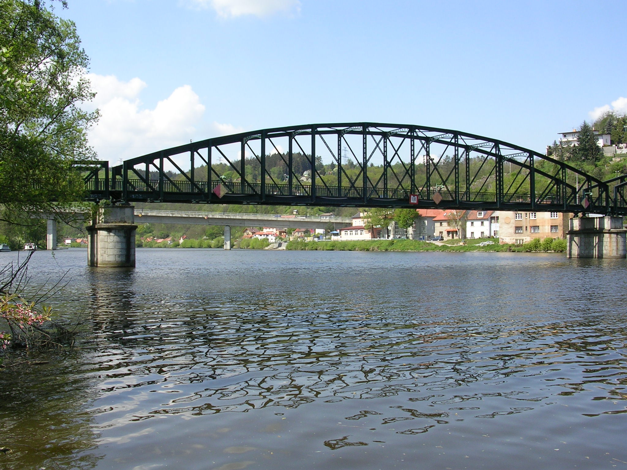 Davle, the Czech Republic.